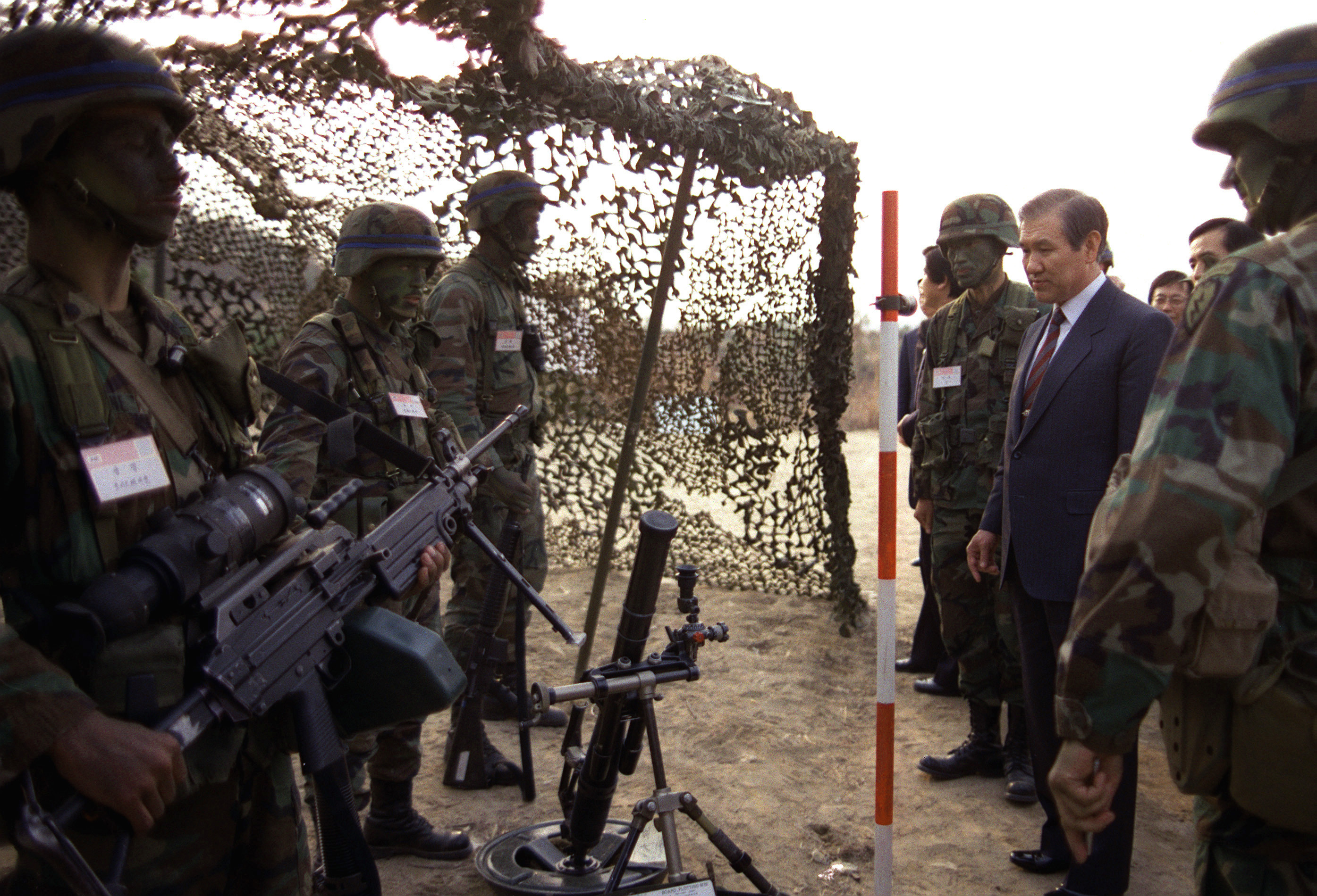 DA-SC-91-01926 South Korean President Roh Tae Woo views a display of infantry weapons while visiting members of 5th Bn., 14th Inf., 25th Inf. Div. (Light), during the joint South Korean/U.S. exercise Team Spirit '89. On the ground at center is an M-224 60mm mortar. The soldier at left is holding and M-249 squad automatic weapon equipped with a night sight.